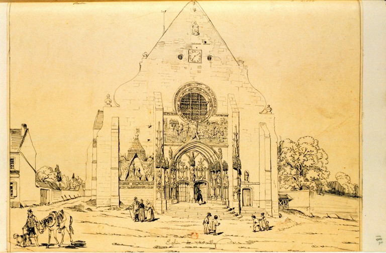 Church Mailly-Maillet. Picardie Somme